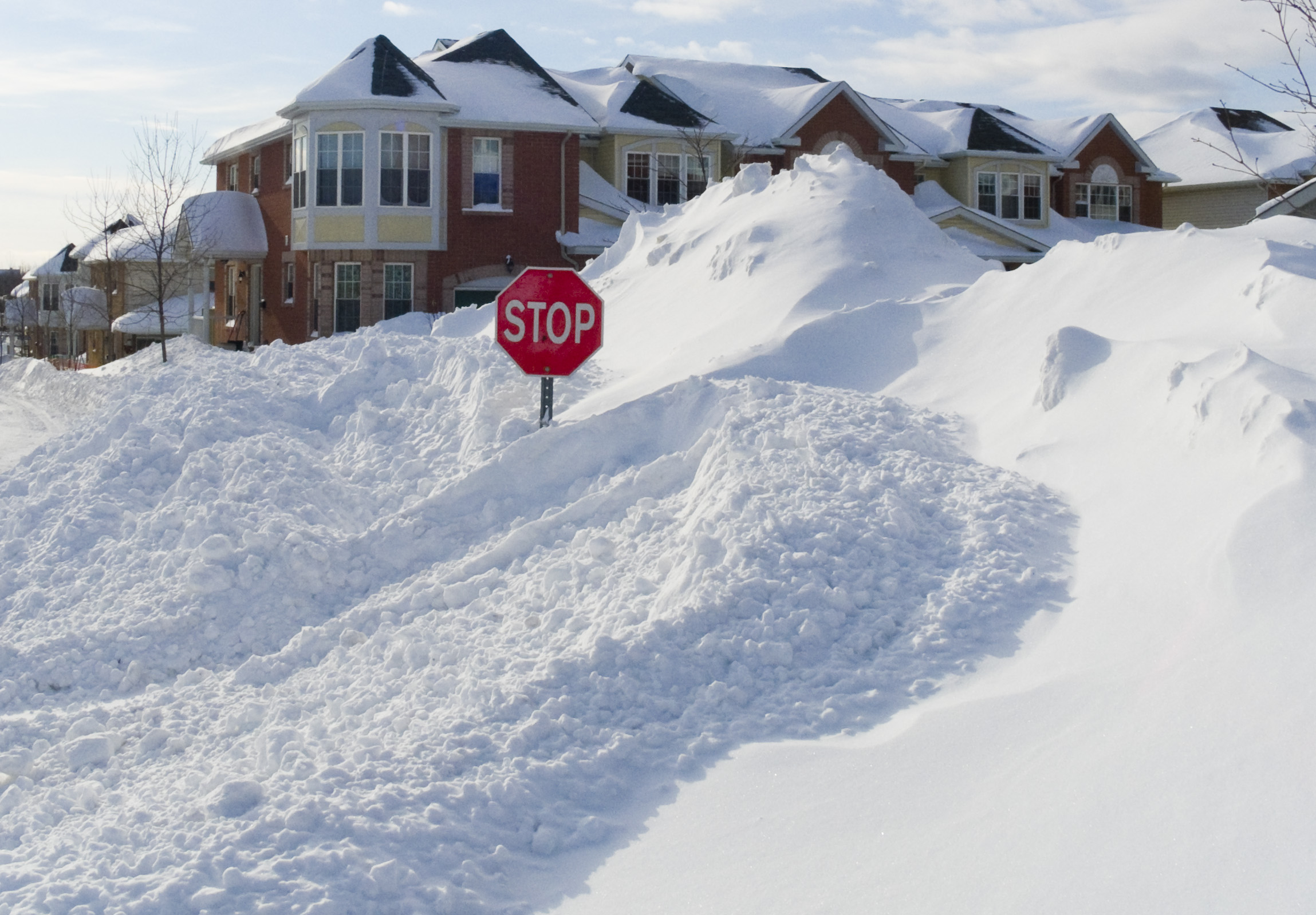 Winter of 2007-2008 in Ottawa, Canada.